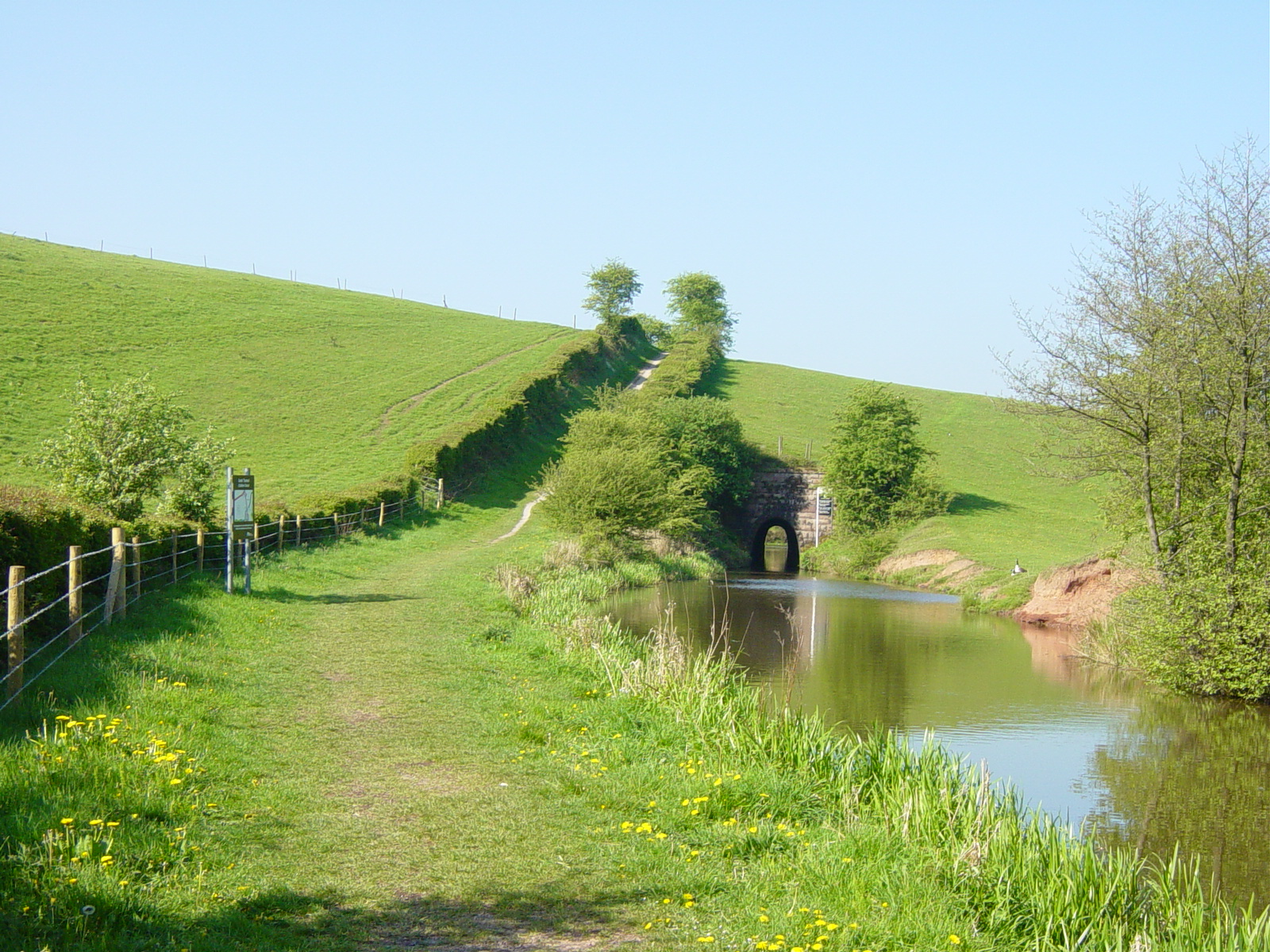 North Portal of Leek Tunnel